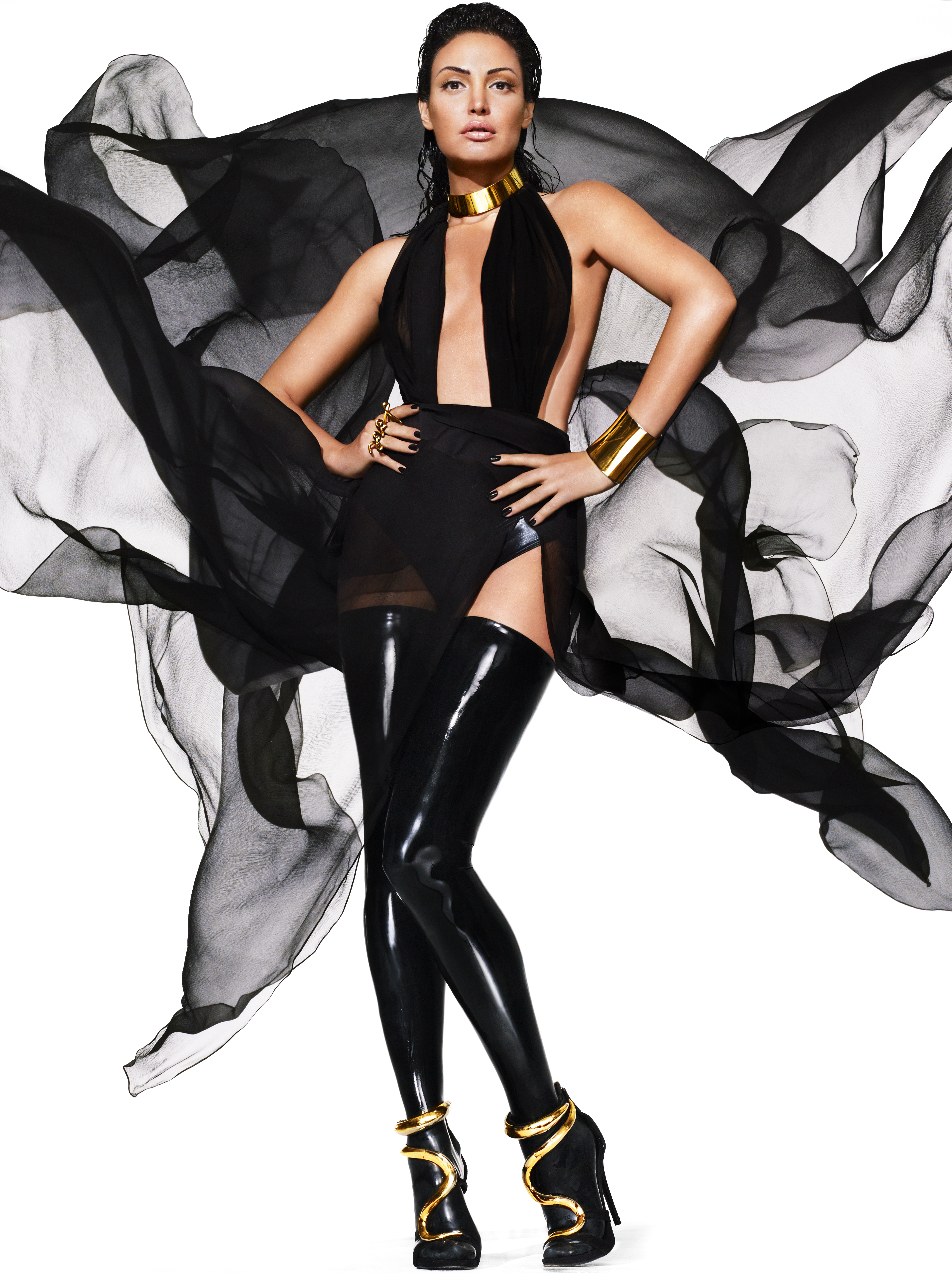 Bleona in Alexander Vuthier for CCercle Magazine